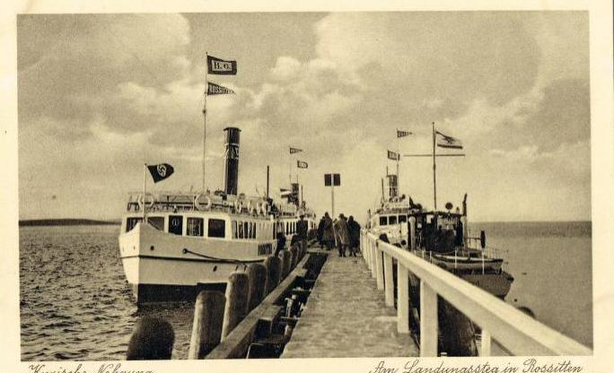 1921 - harbor in Rybachy (former Rossiten) Rossiten Fahrgastschiff auf der Kurischen Nehrung